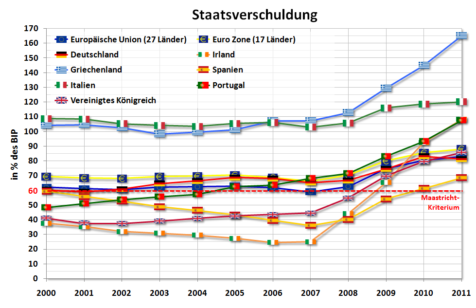 The government debt of Portugal, Italy, Ireland, Greece, United Kingdom, Spain (PIIGGS) against the European Union and Eurozone 2002-2009. Data from Eurostat. New version November 2011, data uptdate, data source Ameco macroeconomic data bank, own computations. German language inscriptions